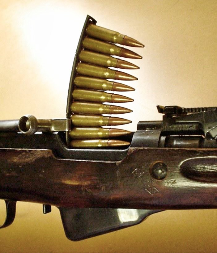 SKS clip charge